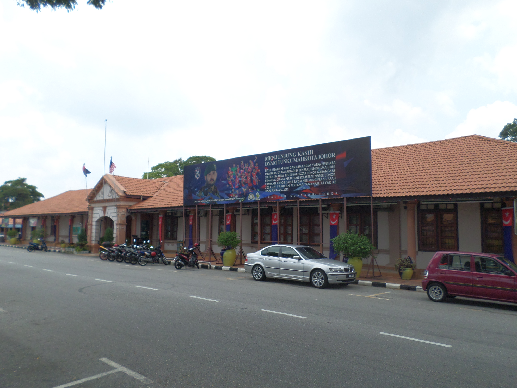 Batu Pahat Municipal Council, Batu Pahat, Johor, Malaysia